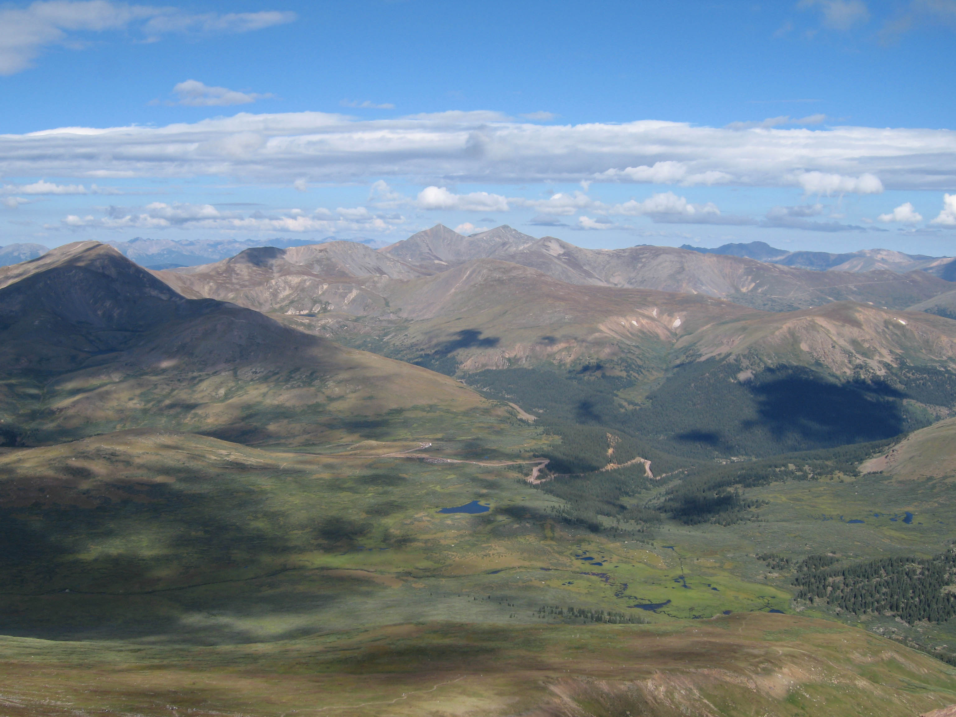 Guanella Pass and trailhead from Mount Bierstadt. Also visible are Square Top Mountain, Mount Wilcox, and Otter Mountain in the front, left to right. Further back, Argentine Peak and Mount Edwards.